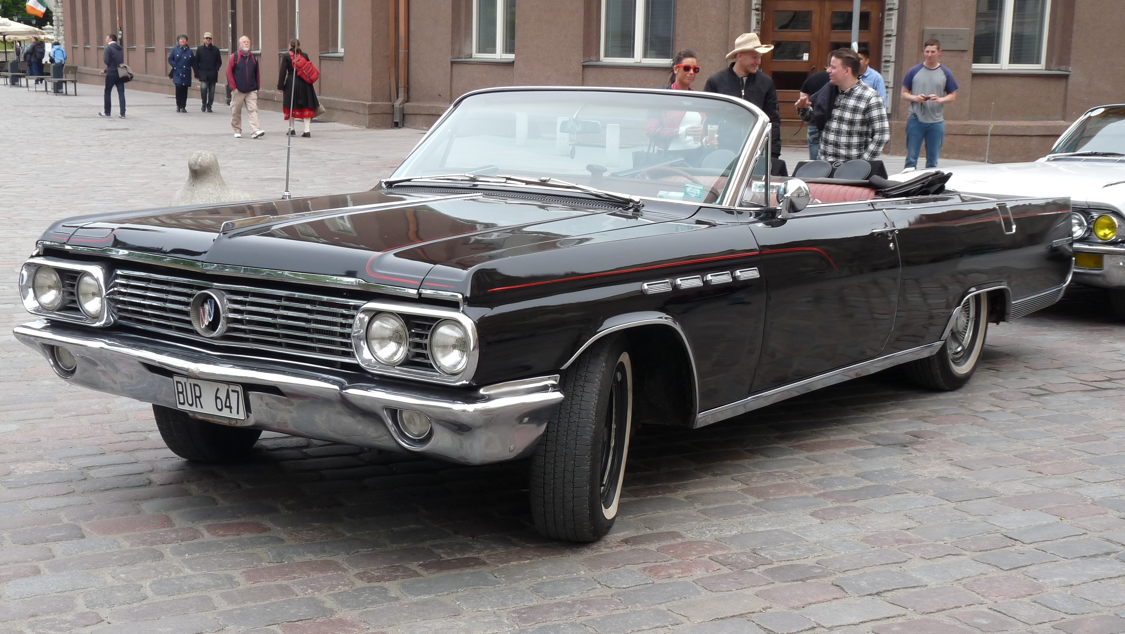 Automobile in Tallinn, Estonia